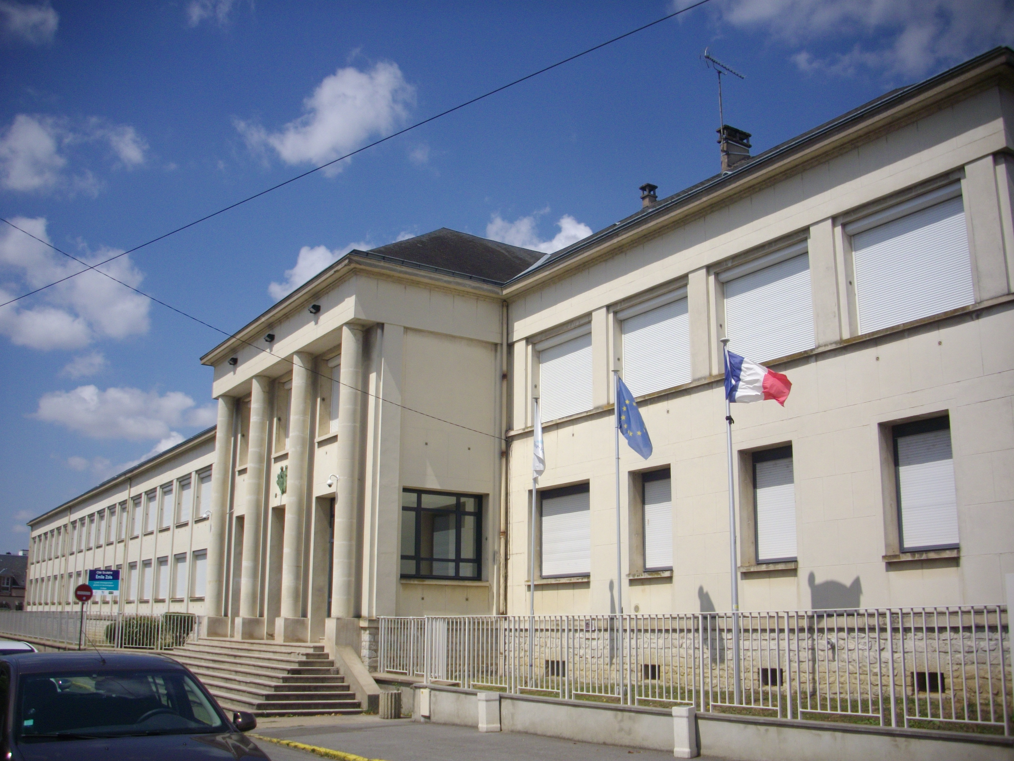 Émile Zola collège and lycée of Châteaudun (Eure-et-Loir, France)